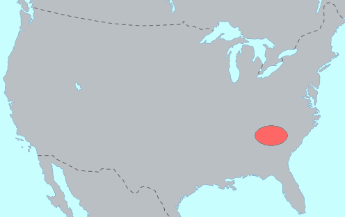 Map of the original claims of the Cherokee tribe